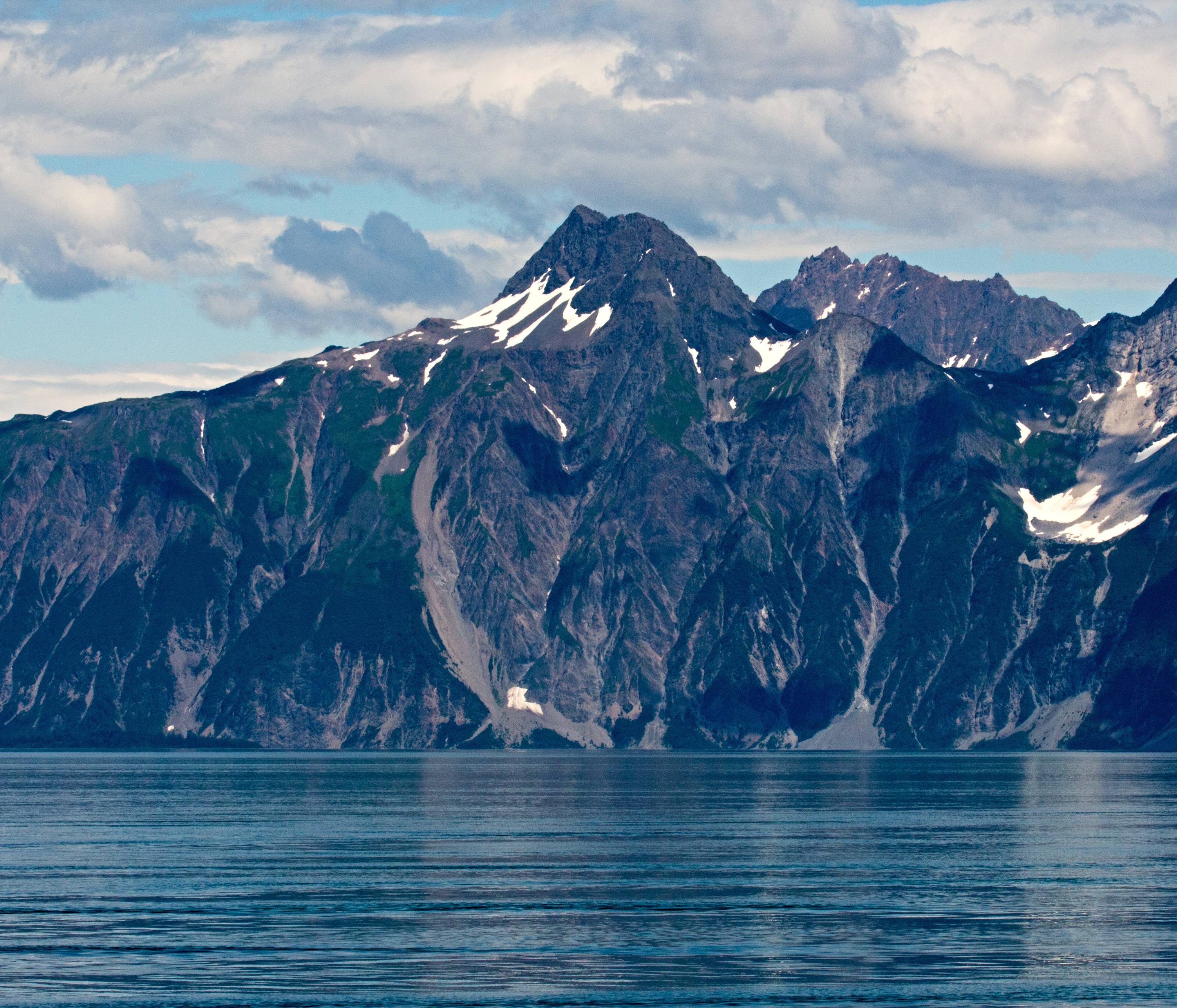 Mount Wright centered with Mouint Case peeking behind over right shoulder